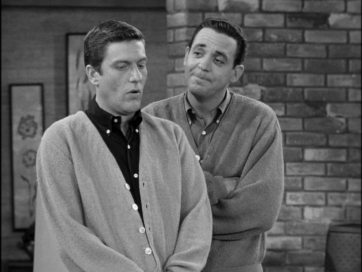 Jerry Paris in the episode "A Man's Teeth Are Not His Own" of the TV series "The Dick Van Dyke Show".